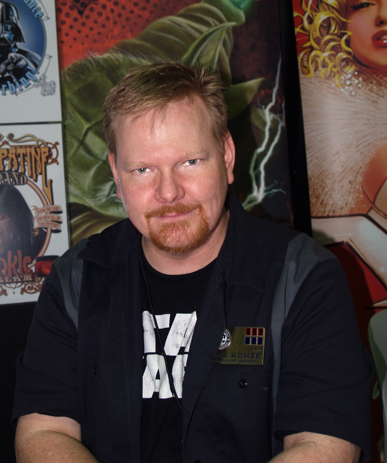 Comics writer/artist Lee Kohse on Friday, October 10, 2014 at the Jacob K. Javits Convention Center in Manhattan, Day 2 of the 2014 New York Comic Con. This photo was created by Luigi Novi. It is not in the public domain, and use of this file outside of the licensing terms is a copyright violation.